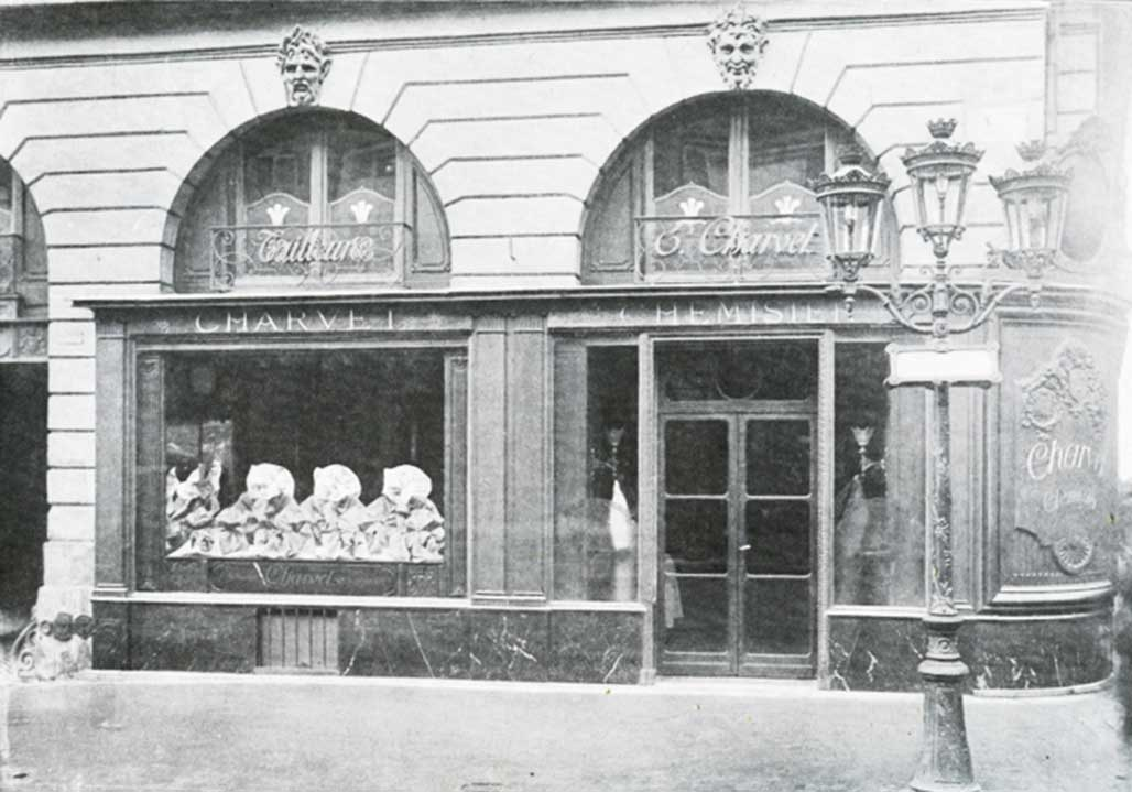 Photo. Outside view of the Charvet store in Paris